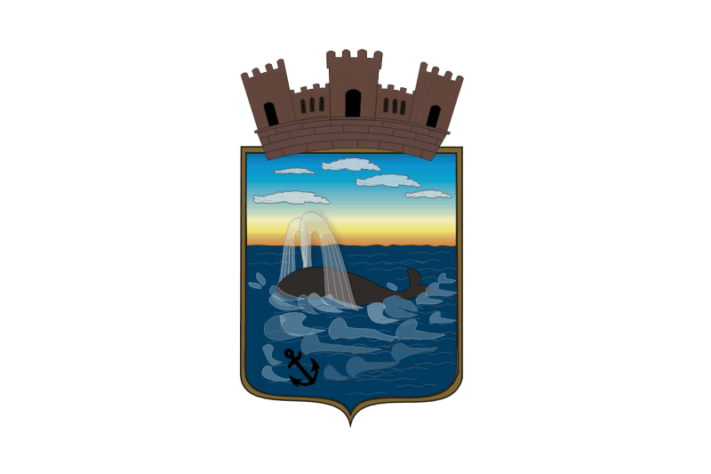 Flag of the Department of Maldonado, Uruguay, Drawn by: Jordevi.